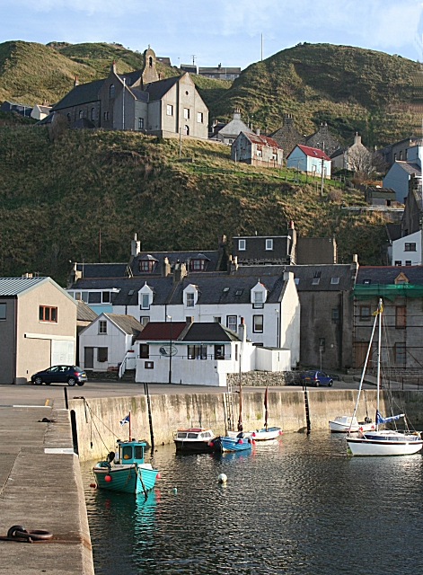 Gardenstown from the Harbour The white building on the quay is the Harbour Restaurant. Directly above, halfway up the hill, is the Church of Scotland.